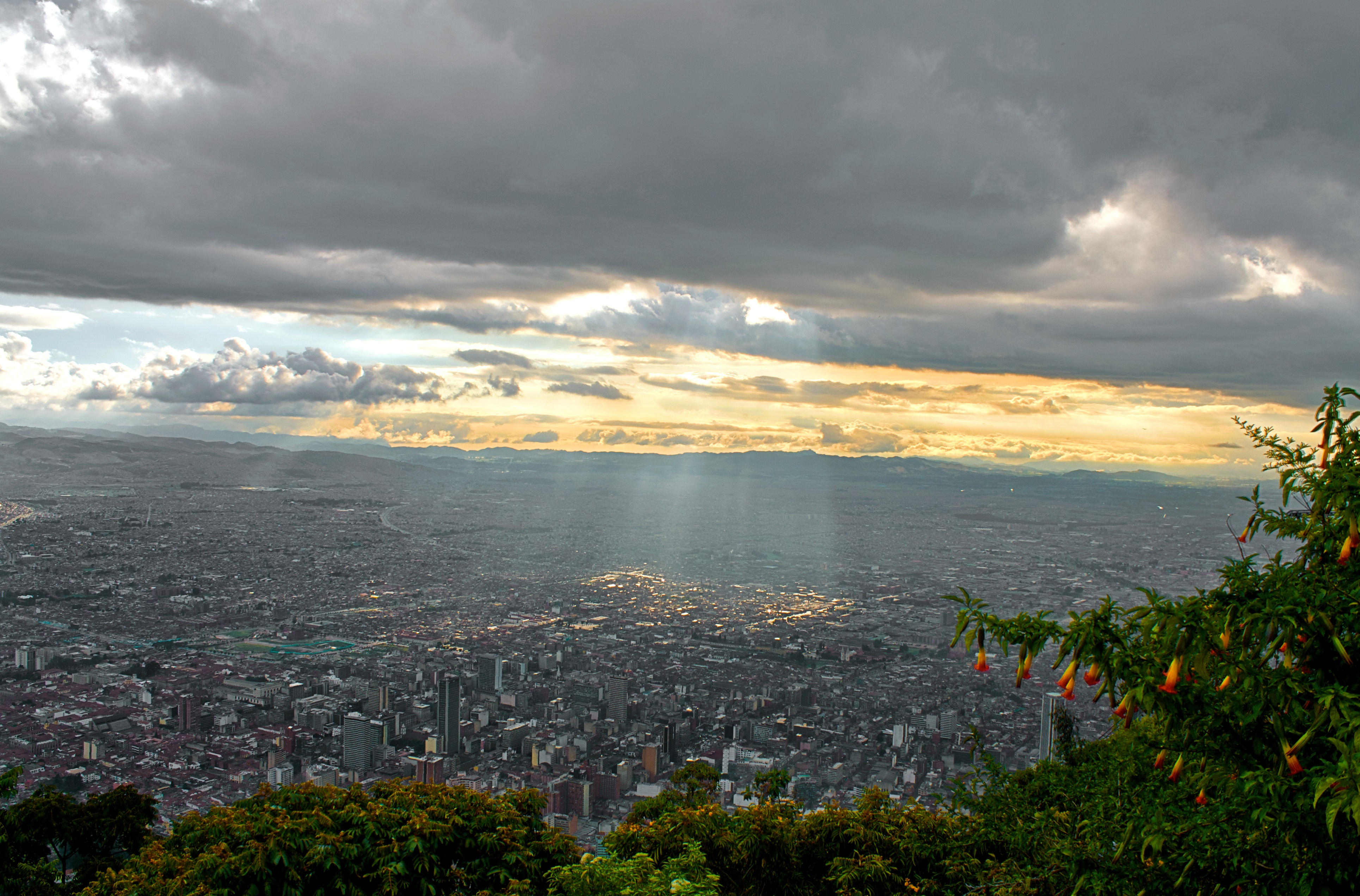 Beam from the sky above Bogota